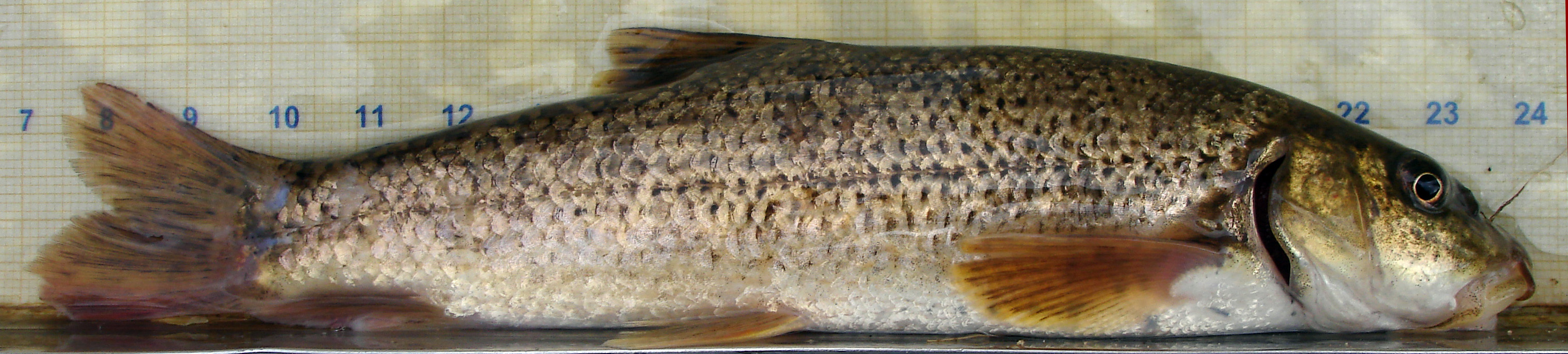 Red-tailed Barbel (Barbus haasi) in river Trueba. Espinosa de los Monteros (Burgos, Spain)